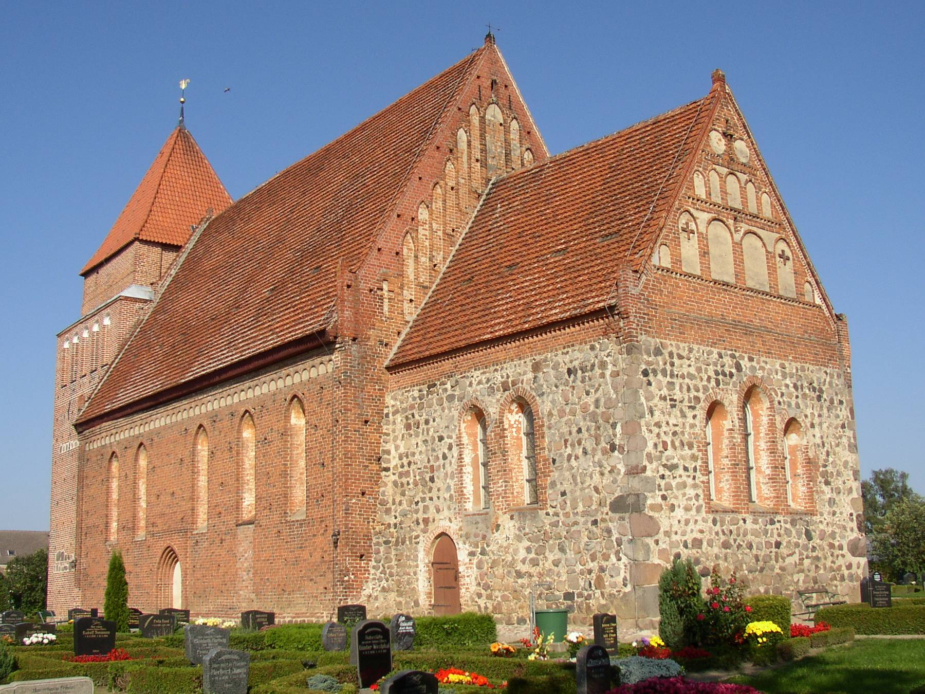 Church in Jördenstorf in Mecklenburg-Western Pomerania, Germany